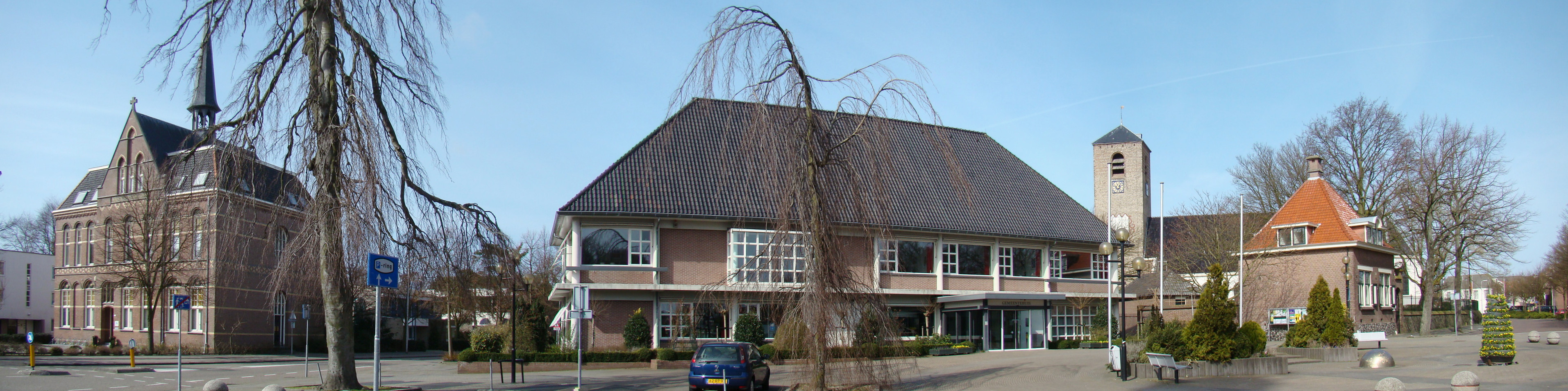 Cityhall and Old Church at Lisse, Netherlands